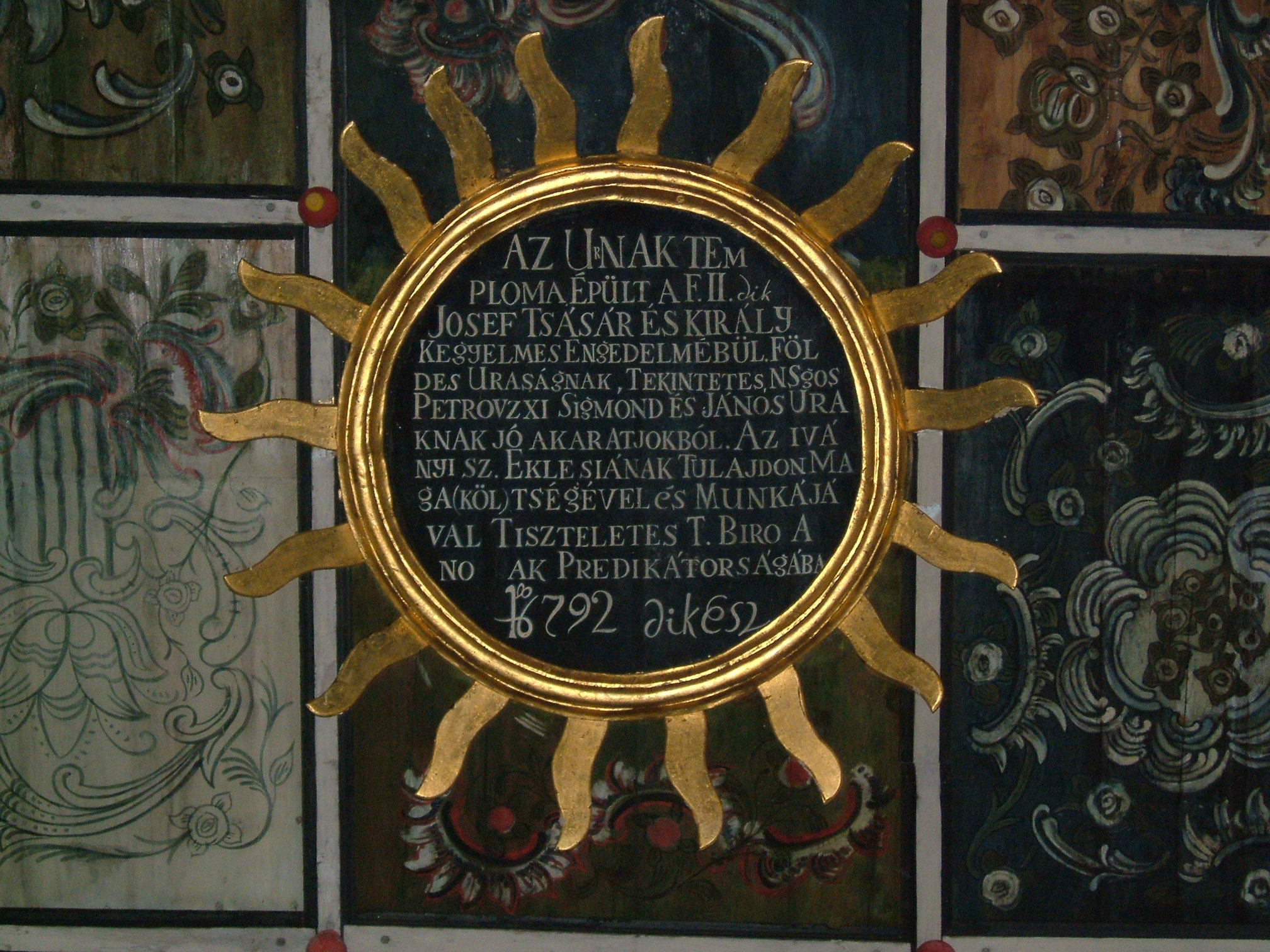 Painted main coffer of the church of Drávaiványi